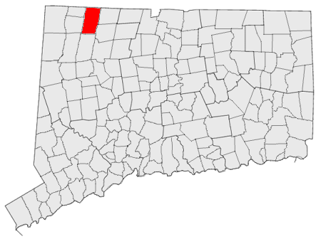 Locator map for Norfolk, Connecticut